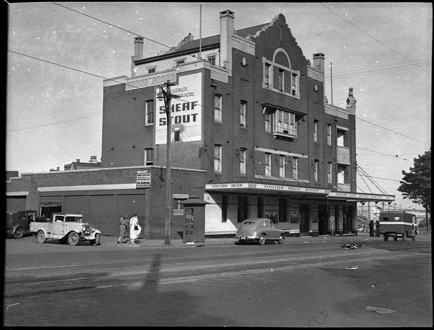 Captain Cook Hotel (taken for L.J. Hooker Ltd.)